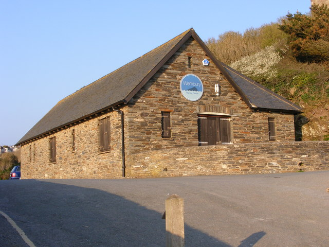 Wembury Beach Wembury Marine Centre